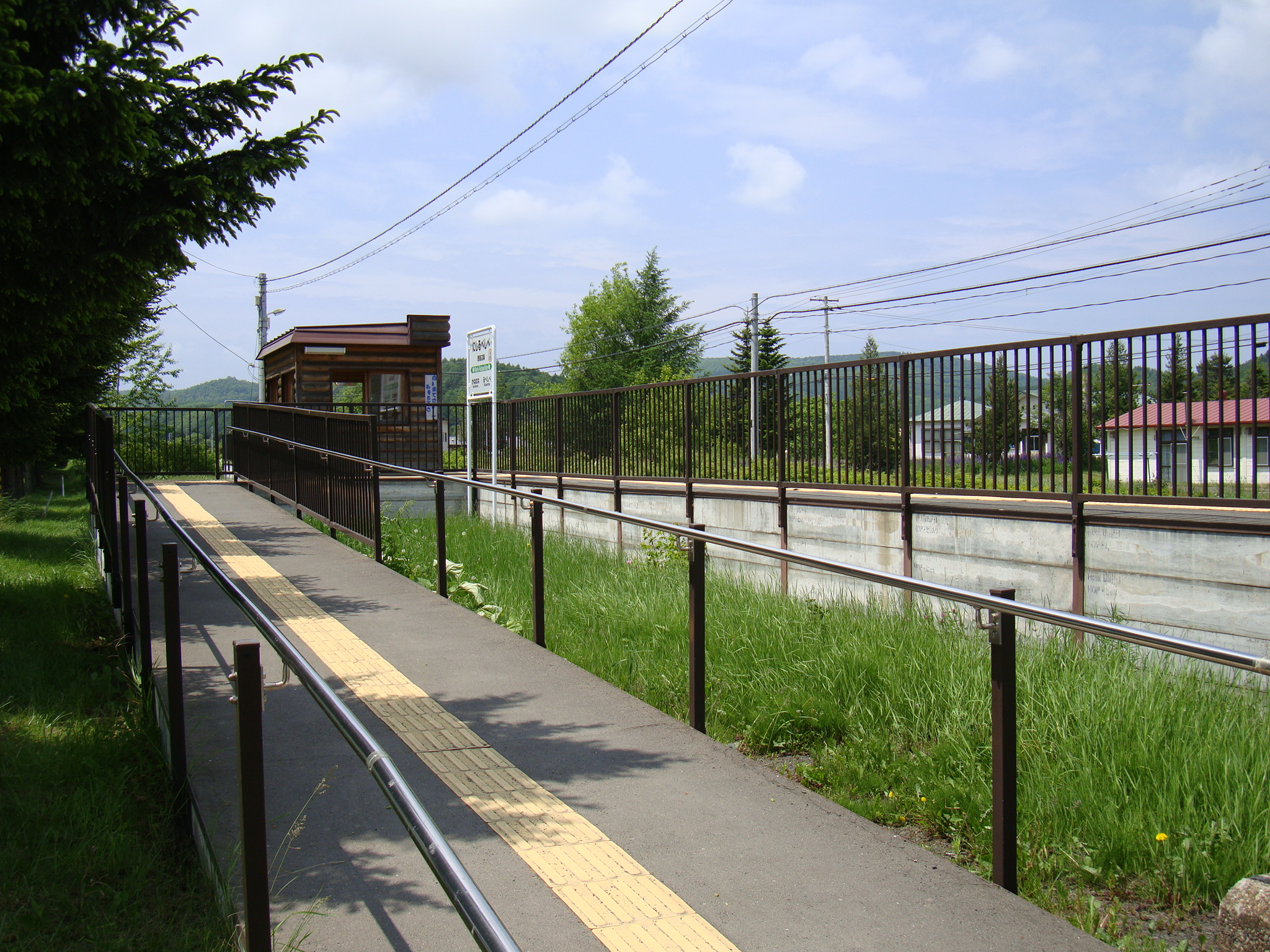 Nishi-Rubeshibe Station